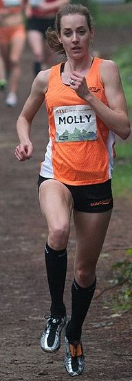 Molly Huddle at the first annual Bay Area Cross Challenge, sponsored by the Bay Area Track Club.